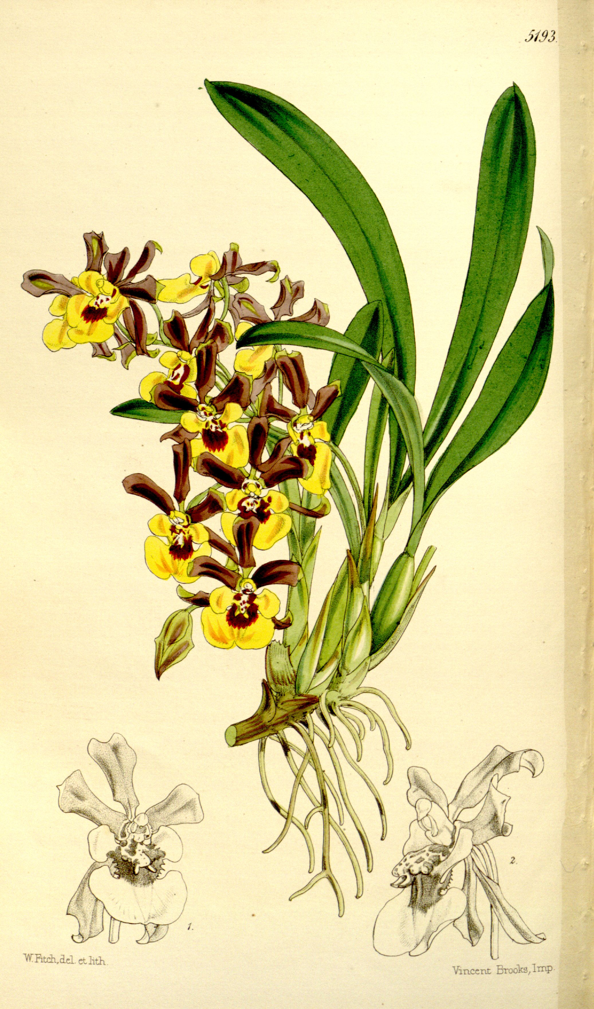 Illustration of Oncidium longipes